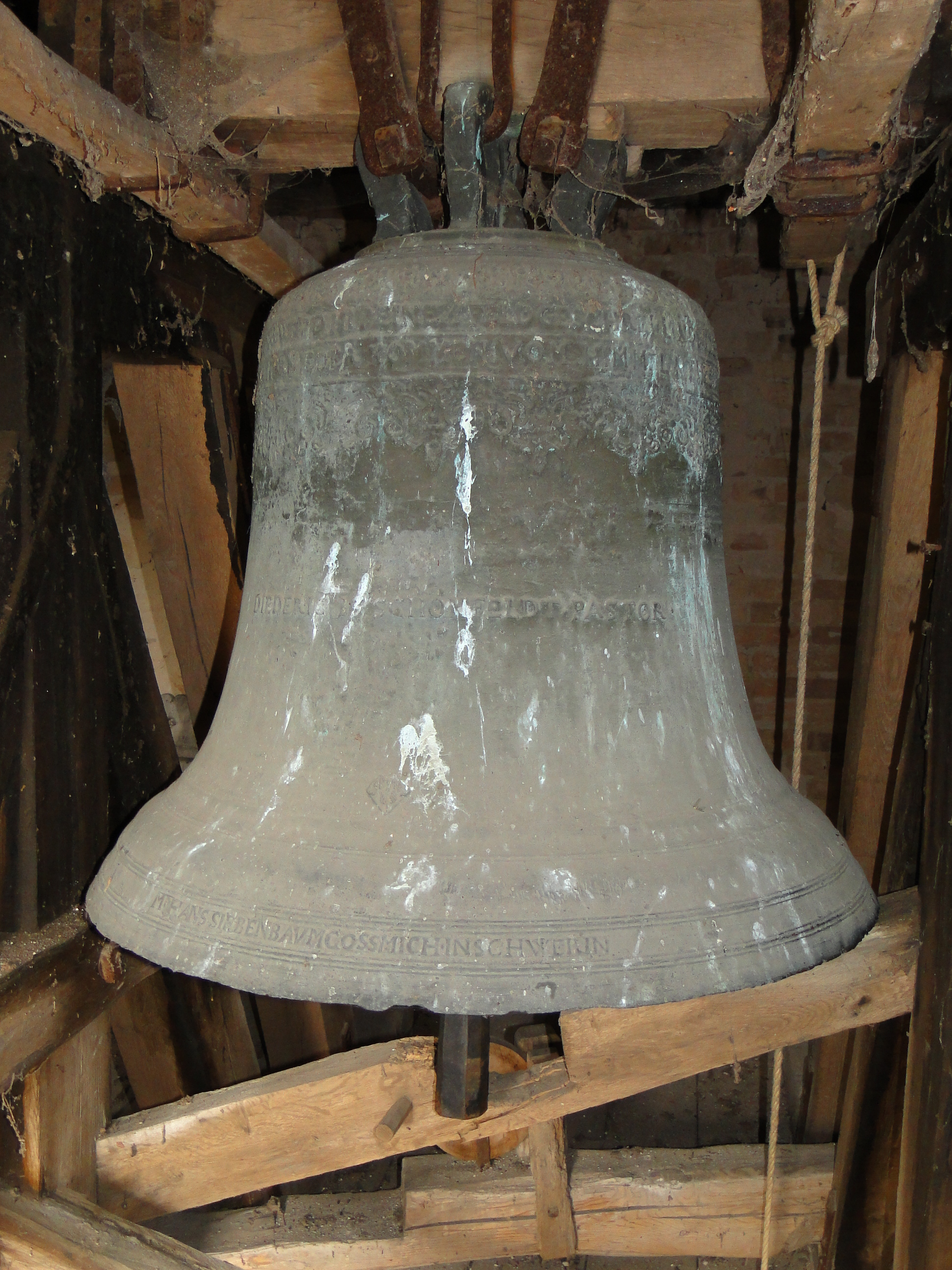 Church in Holzendorf (near Sternberg), distrct Ludwigslust-Parchim, Mecklenburg-Vorpommern, Germany